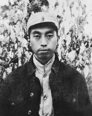 Hua Guofeng